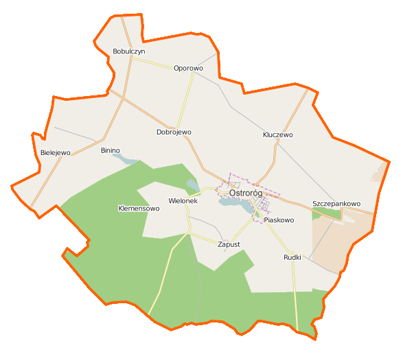 Map of Gmina Ostroróg, PolandThis map of Ostroróg (gmina) was created from OpenStreetMap project data, collected by the community. This map may be incomplete, and may contain errors. Don't rely solely on it for navigation.